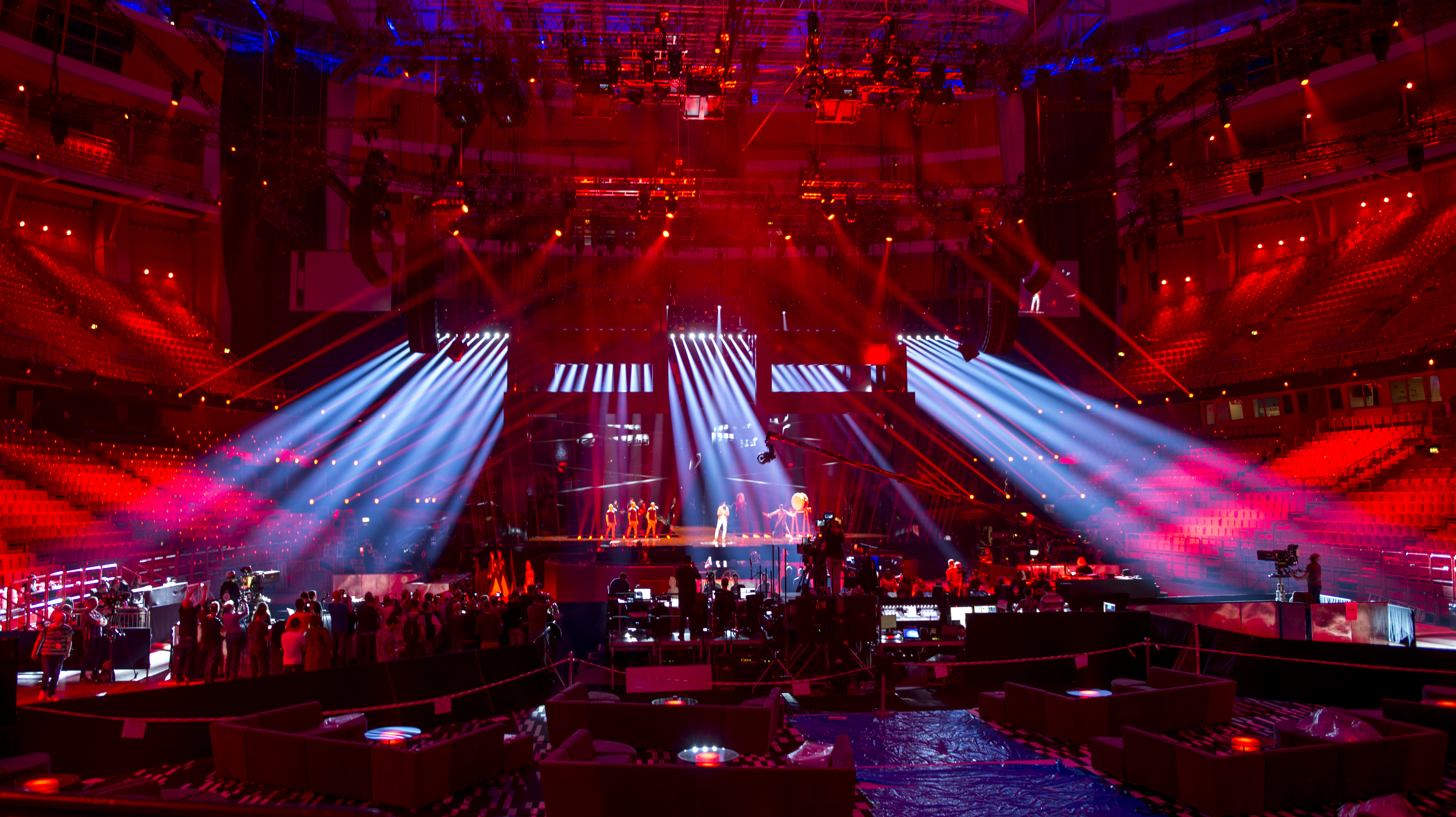 Freddie representing Hungary with the song "Pioneer" during a rehearsal before the first semi final of the Eurovision Song Contest 2016 in Stockholm. (Help translate this text)